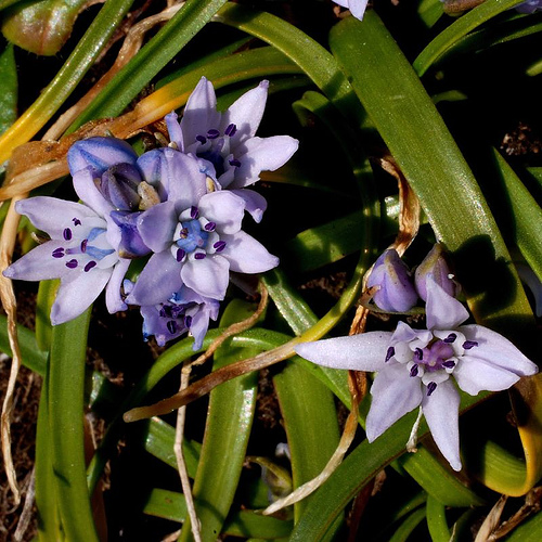 Spring squill (Scilla verna) at St. Just, Cornwall, UK in April.